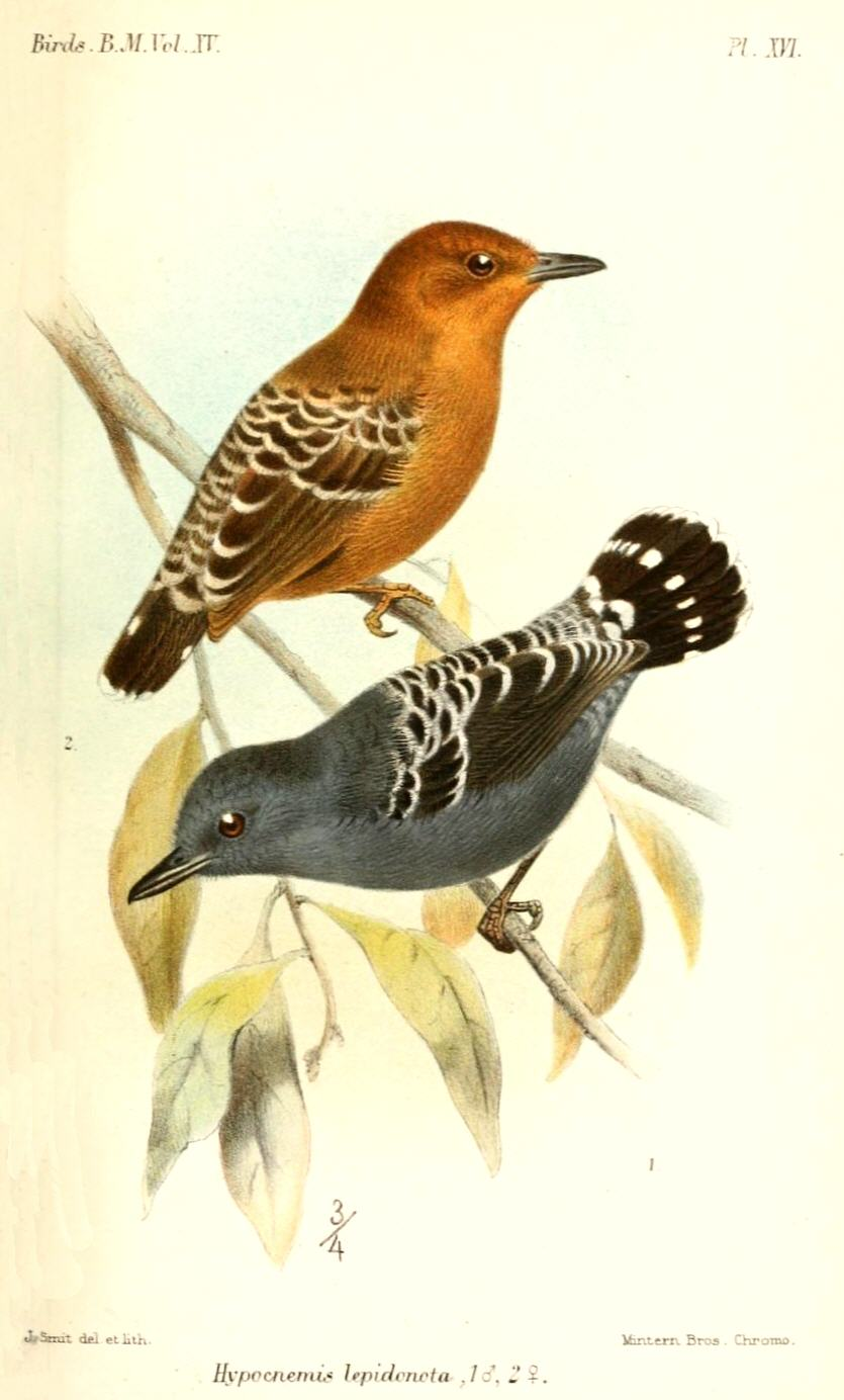 Hypocnemis lepidonota = Willisornis poecilonotus lepidonota, Scale-backed Antbird ssp., female (above) and male (below)